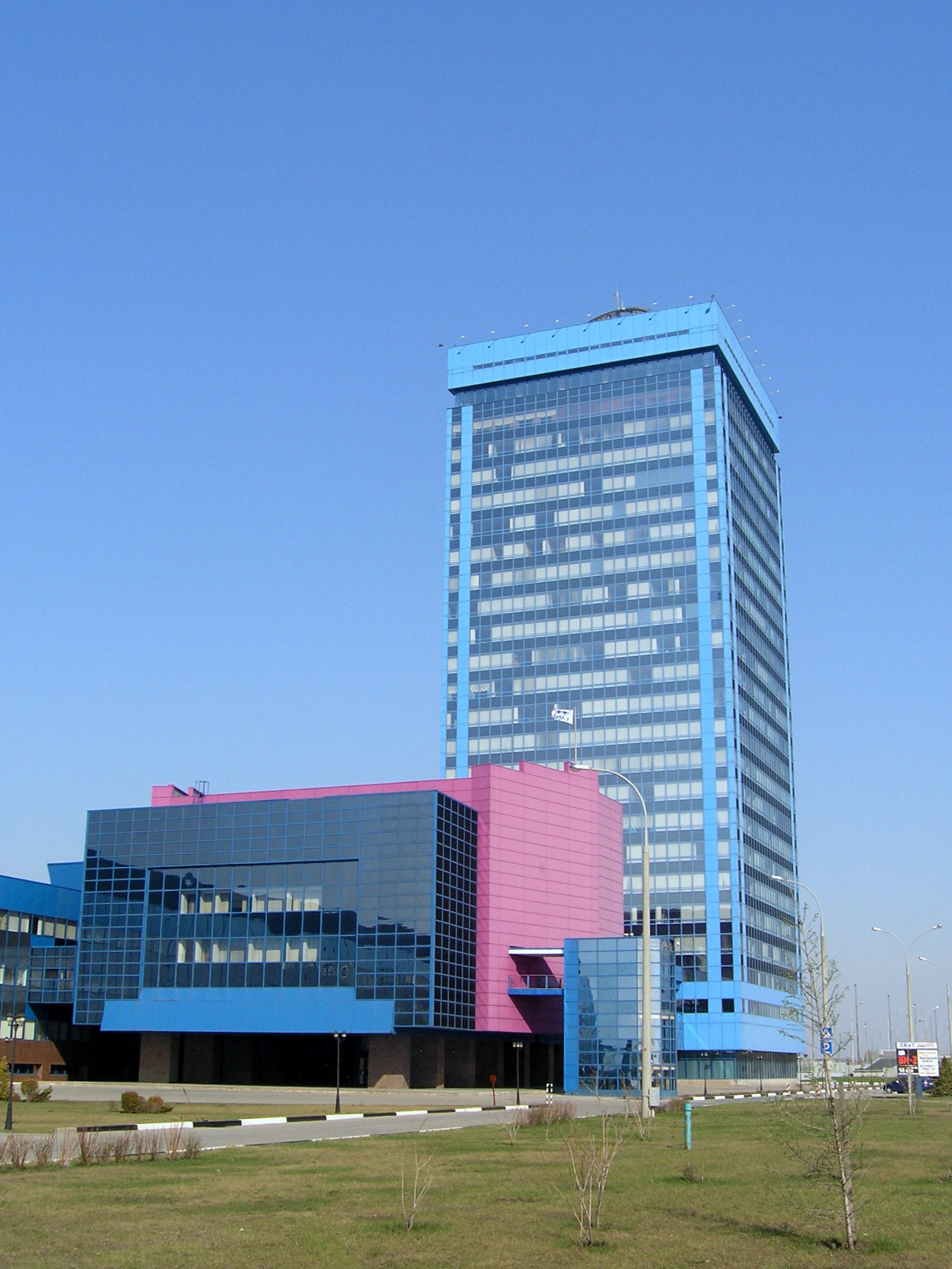 AvtoVAZ administration building, Togliatti, Russia